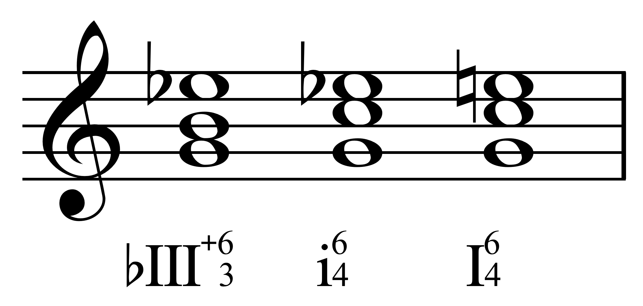 Chords with a predominant function: ♭III+ 3 6 {\displaystyle _{3}^{6 and I 4 6 {\displaystyle _{4}^{6 /i 4 6 {\displaystyle _{4}^{6 .